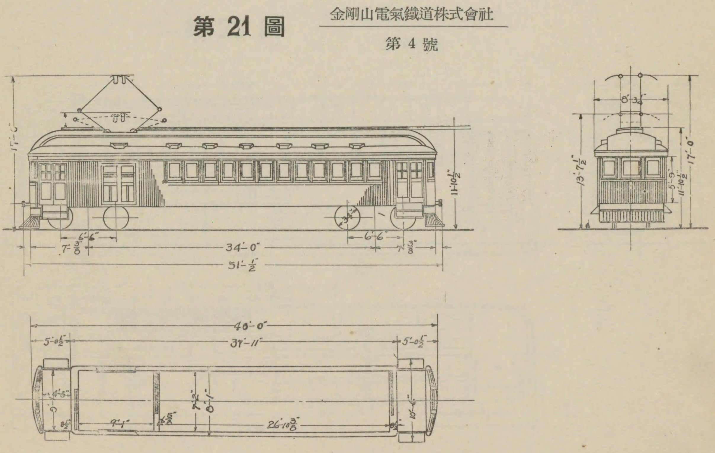 DeHaNi type electric railcar of the Kumgangsan Electric Railway, drawing in 最新電動客車明細表及型式図集 of 1930.